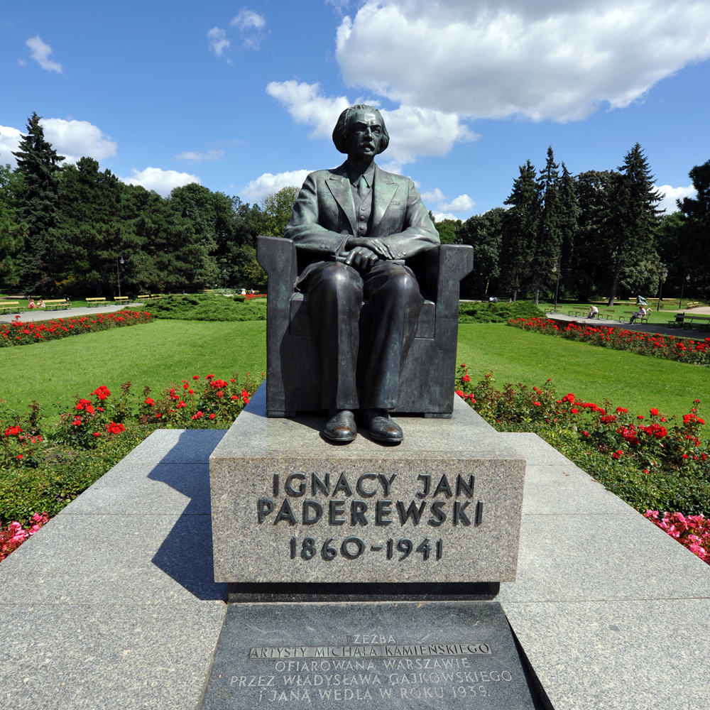 Statue of Ignacy Jan Paderewski in Ujazdow Park in Warszawa, Poland.